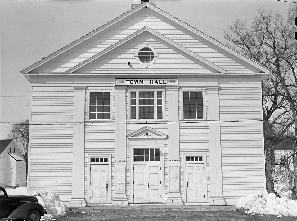 Town Hall, Center Sandwich, New Hampshire